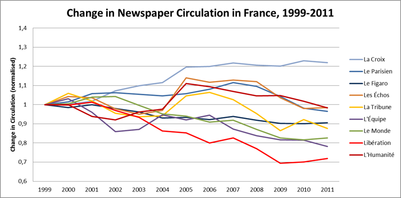 Data from OJD, 1999-2011, as listed of French wikipedia.